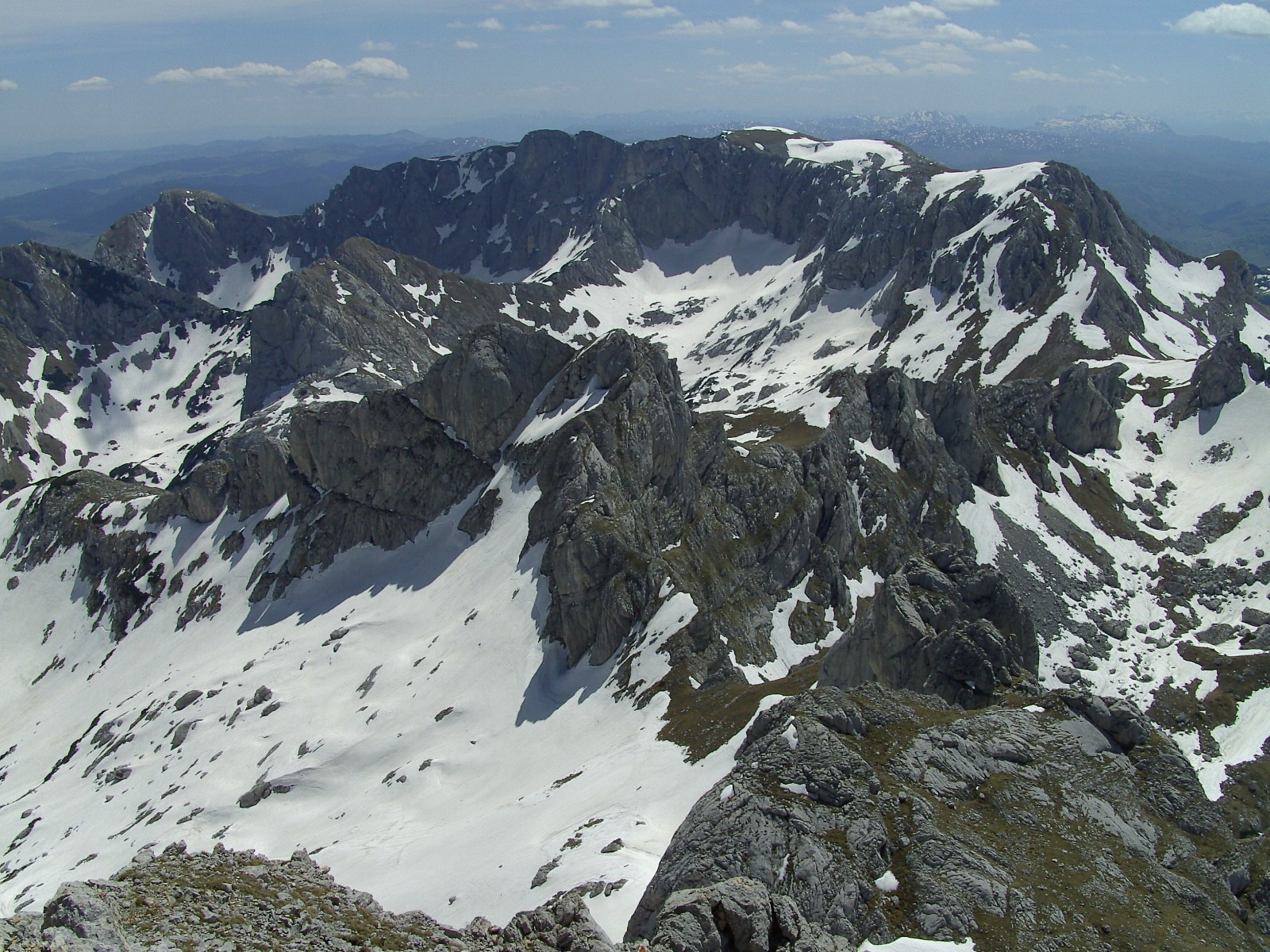 NE part of the Durmitor mountains with Sljeme and Savin Kuk hills, Montenegro